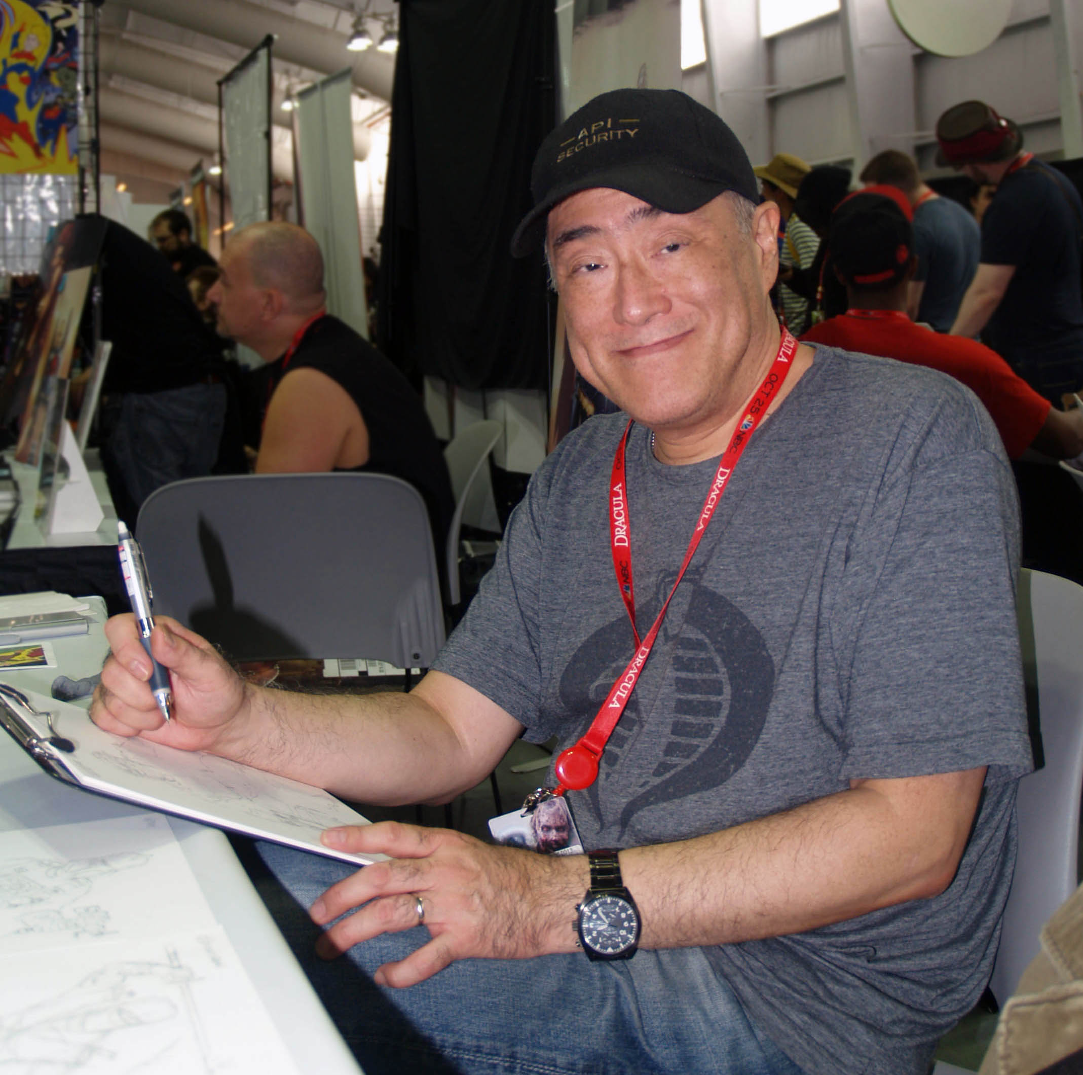 Comics writer Larry Hama in Artists Alley on Sunday, October 13, 2013 at the Jacob K. Javits Convention Center in Manhattan, Day 4 of the 2013 New York Comic Con. This photo was created by Luigi Novi. It is not in the public domain, and use of this file outside of the licensing terms is a copyright violation.